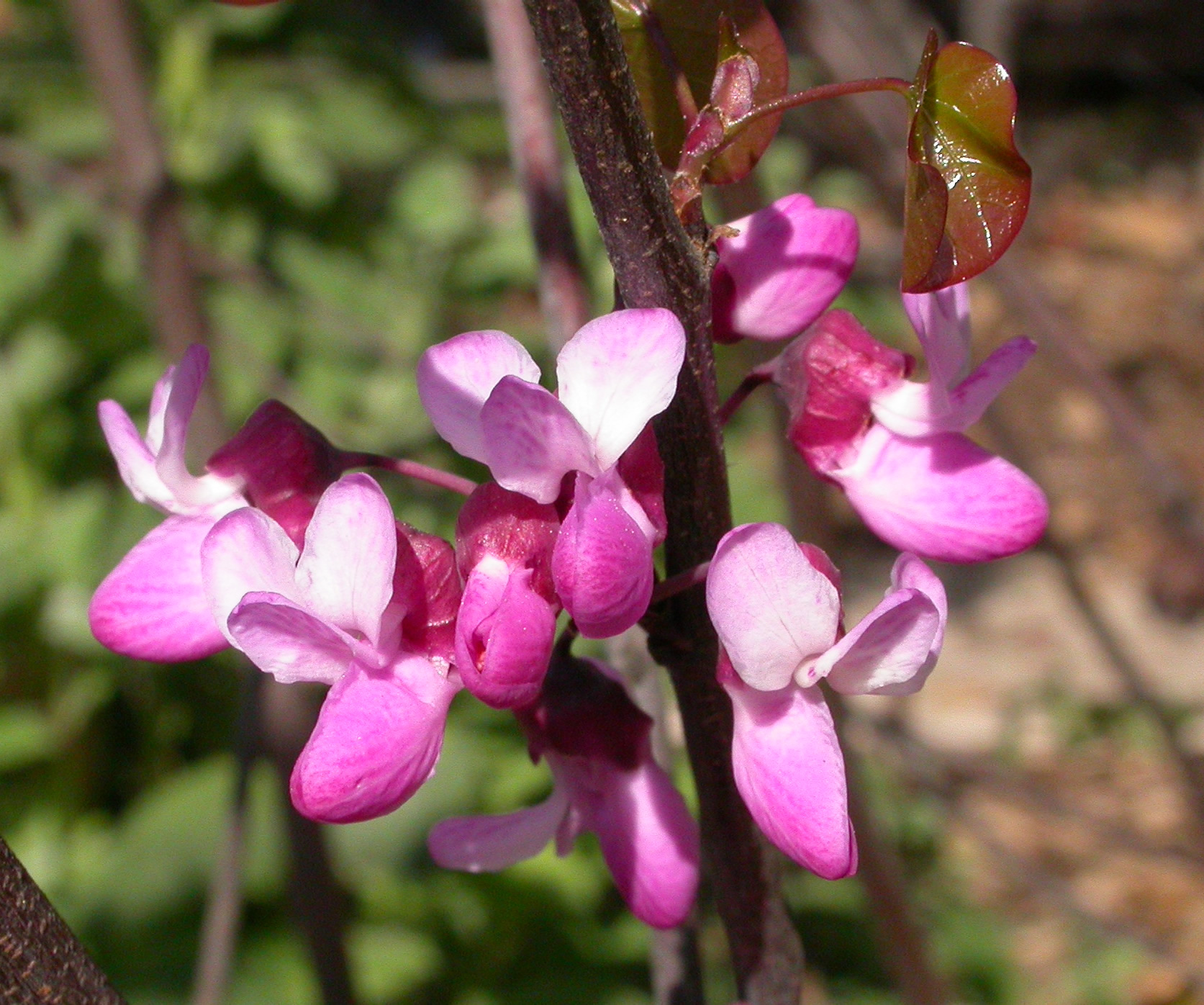 Cercis occidentalis. Photographed at BioTrek. Contributed and © by Curtis Clark. Licensed as noted.